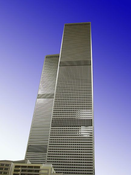 Twin Towers II As per the MakeNYNYAgain Web site: "All material on this Web site (except some media coverage & cartoon) can be used without permission." WTC Towers Memorial was a project paid for by Twin Towers II Memorial Foundation, Inc., a 501(c)3 corporation registered in the State of New York, 2005. Twin Towers II is a project that was developed by The Gardner Group prior to the WTC Towers Memorial project, 2005. Use of photo renderings of the WTC Towers Memorial are subject to a written request for use to Twin Towers II Memorial Foundation. Use of photos of Twin Towers II are the sole jurisdiction of The Gardner Group. The Gardner Group's policy, stated below (under licensing) refers exclusively to the Twin Towers II project and memorial design prior to 2005 and the WTC Towers Memorial Project. To date, no formal request has been received by Twin Towers II Memorial Foundation, Inc. for permission to use a photo rendering of the WTC Towers Memorial Project. At this time, use of the WTC Towers Memorial photo on Wikipedia is unauthorized. Lsmcguinn 17:49, 3 January 2007 (UTC) No Rights Reserved pertains only to photos of Twin Towers II from 2003 to June 2005 and prior to the development of the WTC Towers Memorial project by Twin Towers II Memorial Foundation, Inc., the corporation that developed and paid for the WTC Towers Memorial project. Lsmcguinn 18:00, 3 January 2007 (UTC)